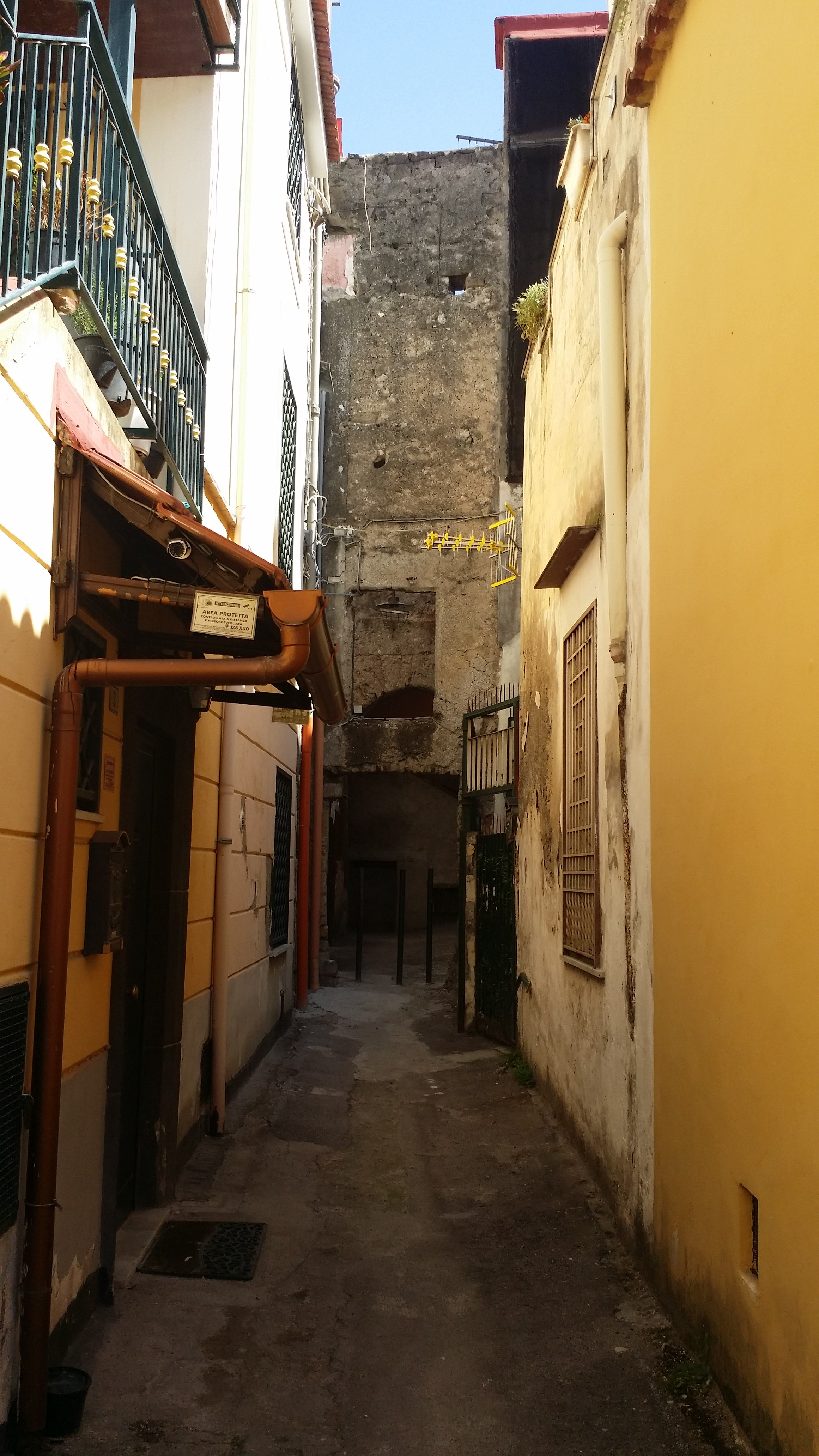 Remains of a part of the ancient medieval wall of Angri, located in the current via Marconi and visible from the alley Porta di Basso.